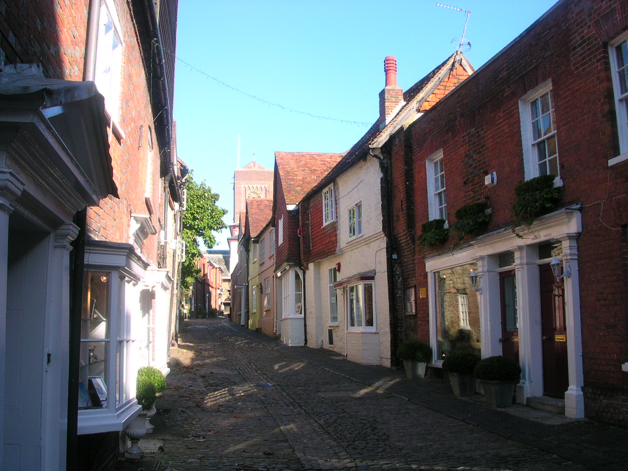 Taken at Petworth, West Sussex, England in October 2007